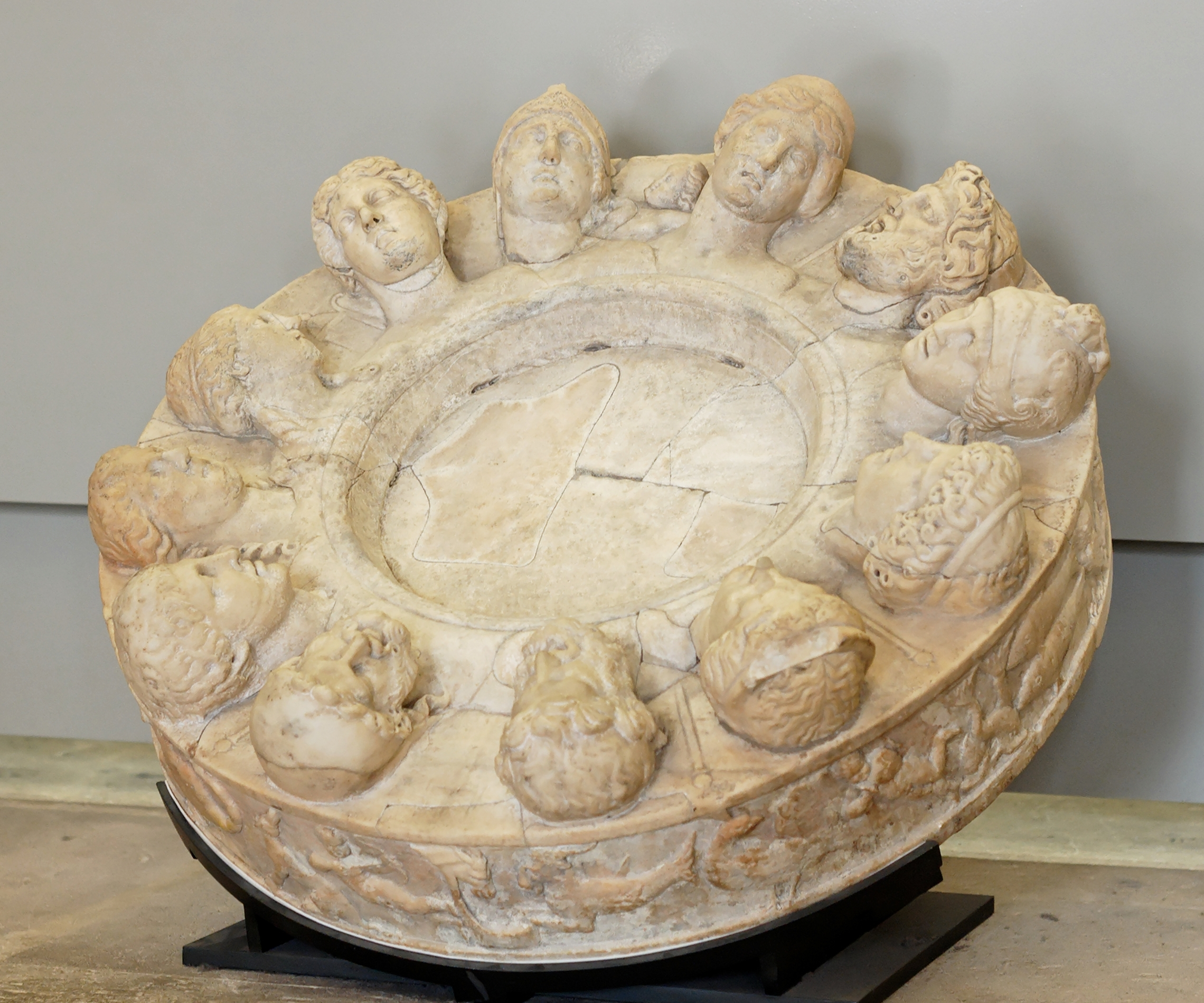 Altar of the twelve gods, use unknown: maybe the brink of a well or an Zodiac altar. The object represents the twelve gods of the Roman pantheon, each identified by an attribute: Venus and Mars linked by Cupid, Jupiter and a lightning bolt, Minerva wearing a helmet, Apollo, Juno and her sceptre, Neptune and his trident, Vulcan and his sceptre, Mercury and his caduceus, Vesta, Diana and her quiver and Ceres. Marble, found in Gabii (Italy), 1st century CE.